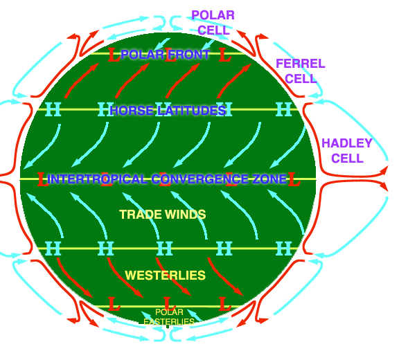 Atmospheric circulation diagram